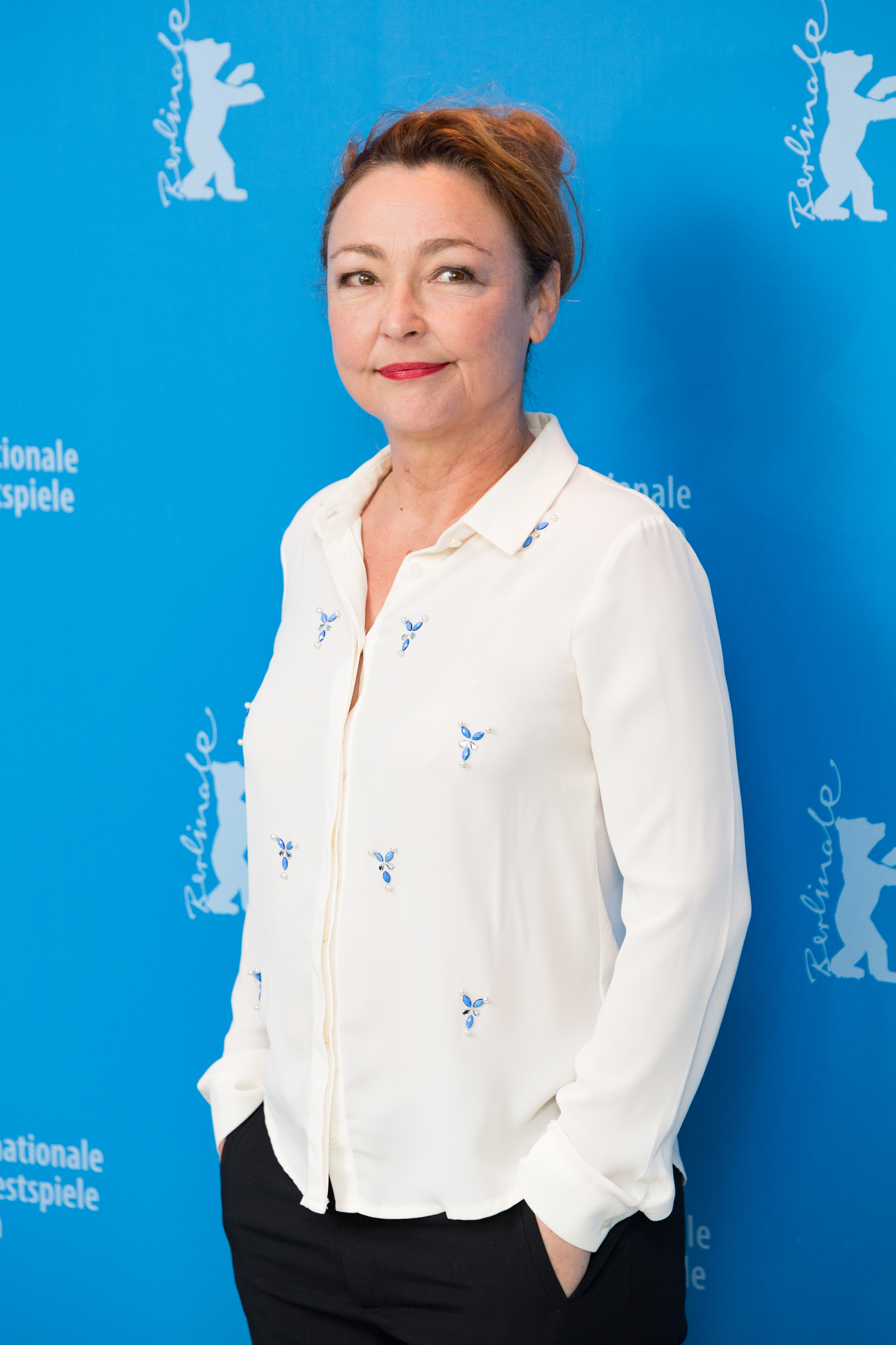 Catherine Frot at the presentation of Mid Wife during the Berlinale 2017